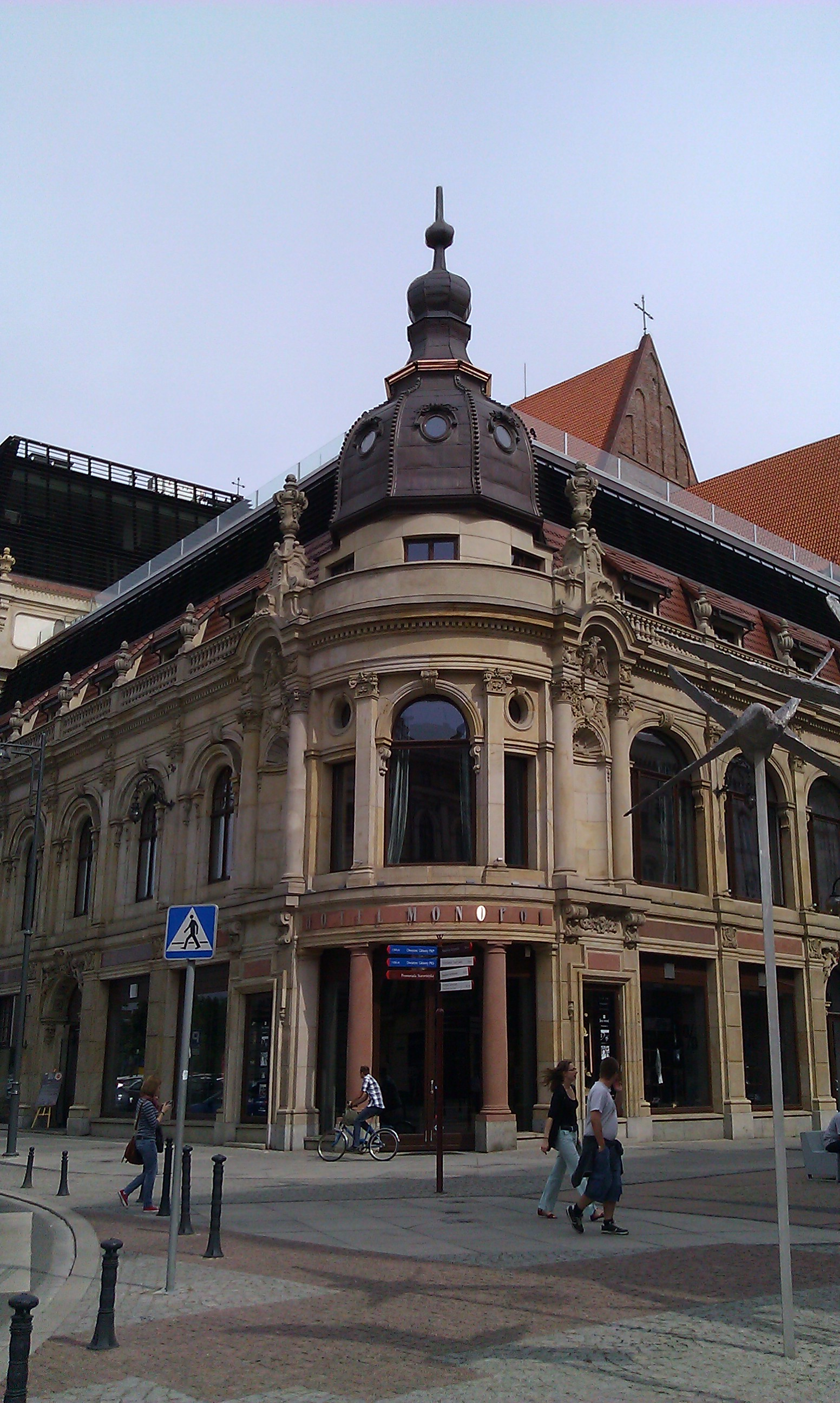 Wrocław Monopol Hotel outside view